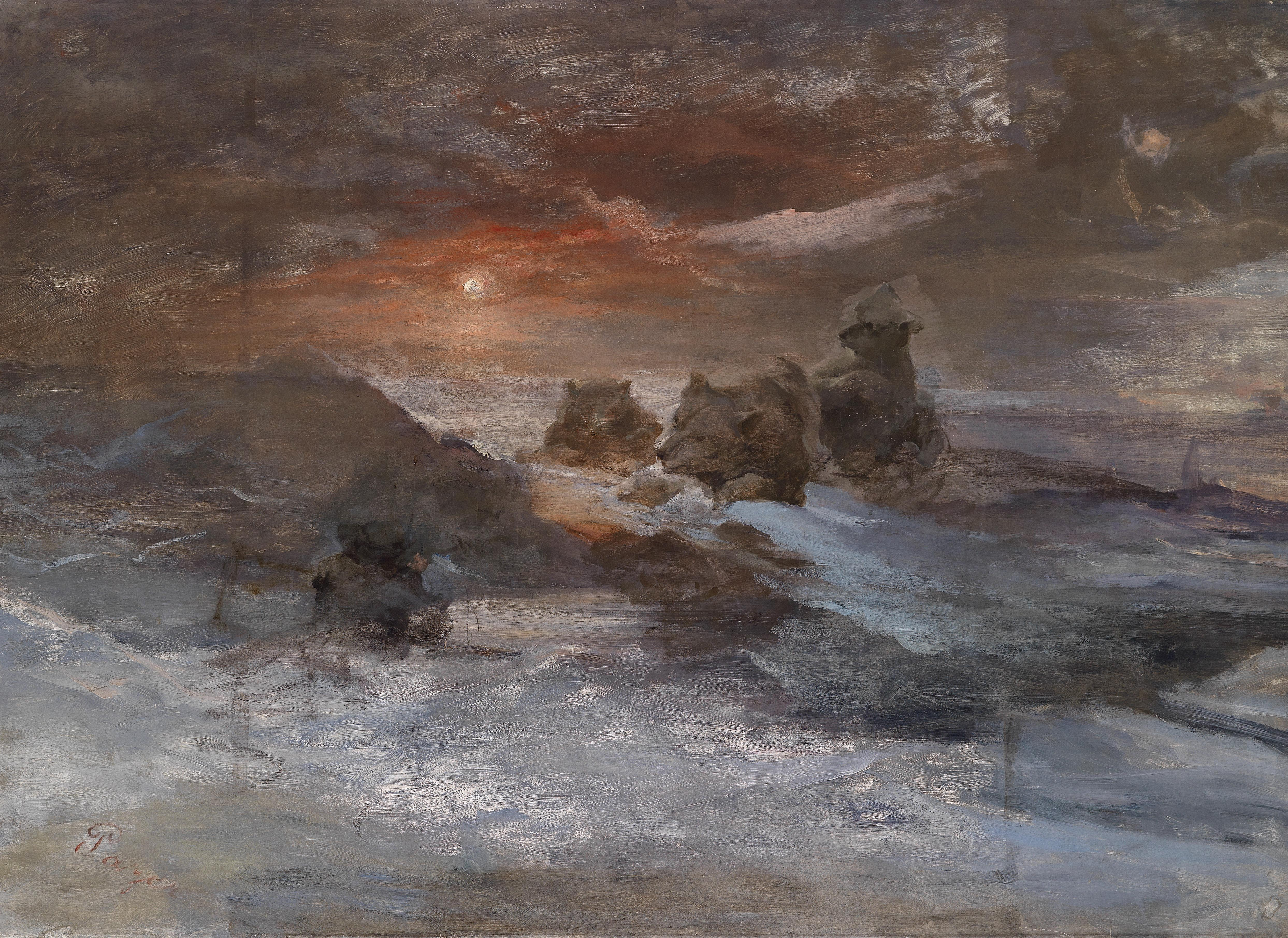 On 30 August 1873 the Austro-Hungarian expedition to the North Pole, lead by Lieutenant Julius Payer (Commander of the overland journey) and ships’ Lieutenant Carl Weyprecht (Commander of the overseas expedition), officially discovered the archipelago, starting with Hall Island (Ostrow Gallya, named after Charles Francis Hall). He explored the eastern part over the course of three sledge journeys to the northernmost tip (Cape Fligely) and named the archipelago after Emperor Francis Joseph I.